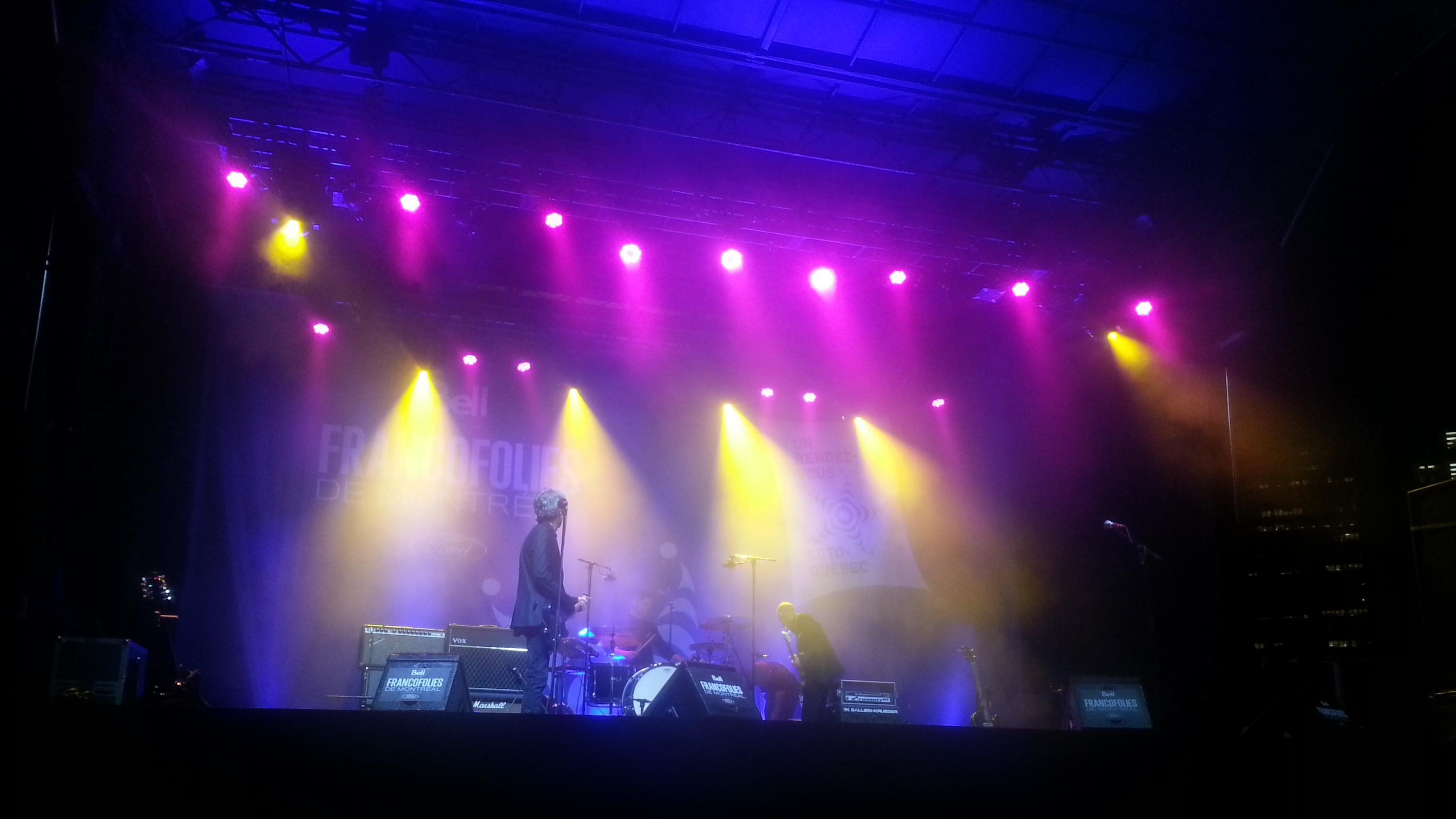 Les Chiens photographed in Montreal, Quebec, Canada at the Francofolies de Montréal.